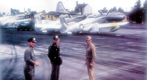 F-82 "Twin Mustang" of the 27th Fighter Wing, along with a B-29 at Kearney Air Force Base, Nebraska, 1948.